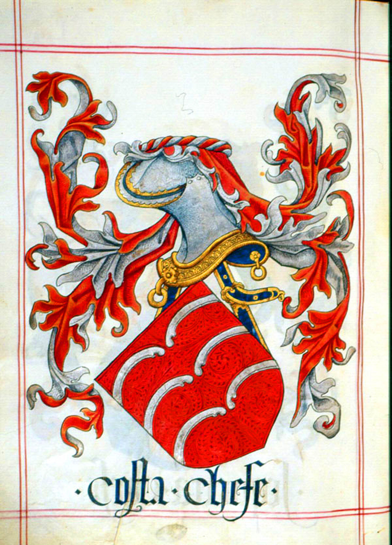 Coat of arms of the da Costa family. Digital copy found at the site, Livro do Armeiro-Mor. Copy enhanced and processed by digital techniques by famadoria